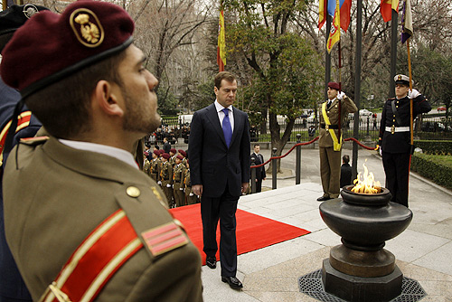 MADRID. Dmitry Medvedev laid a wreath at the Monument to the Fallen for Spain.